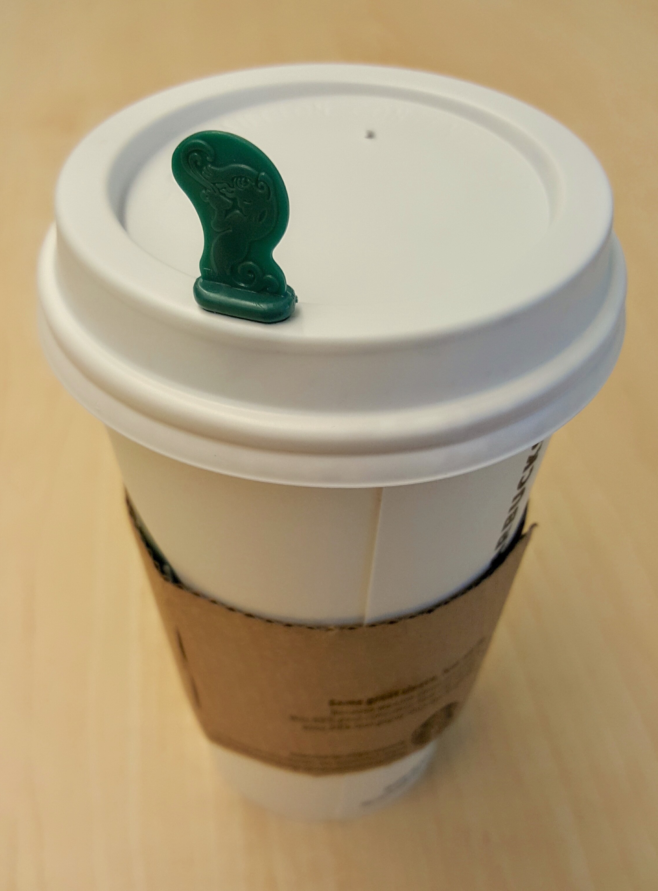 A paper coffee cup with a cardboard heat sleeve around it, and a hot stopper in the lid.